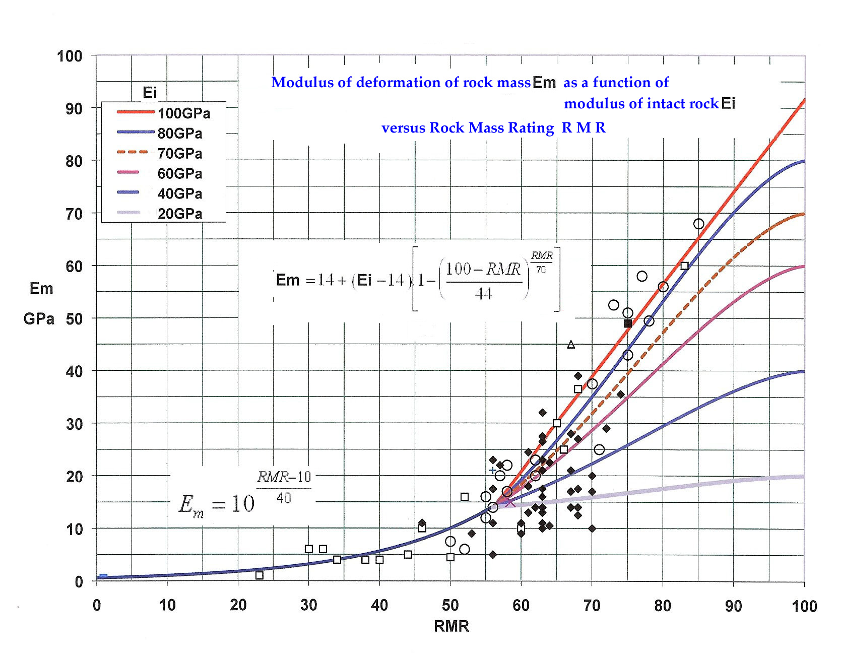 Shows the relationship between modulus Em and RMR